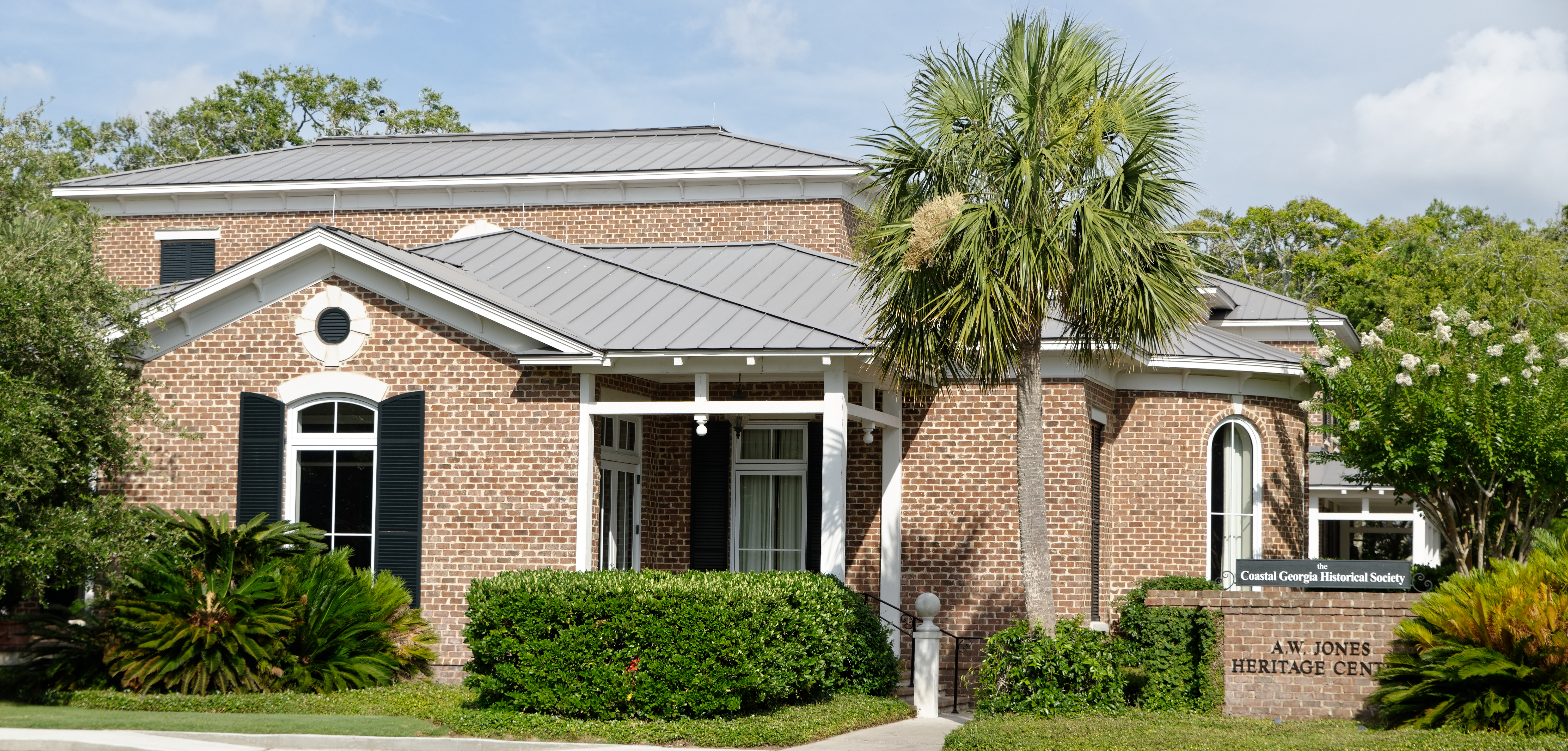 A. W. Jones Heratige Center, St, Simons, Georgia, U.S.